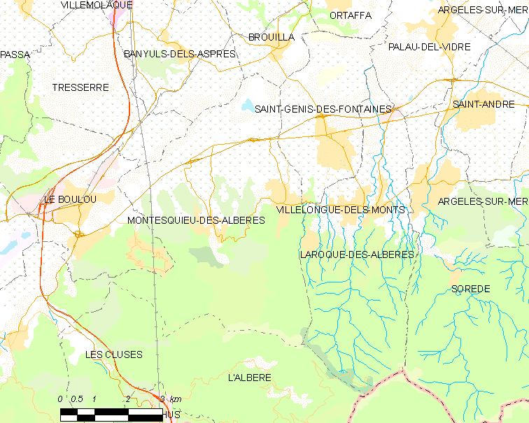 Map of French municipality